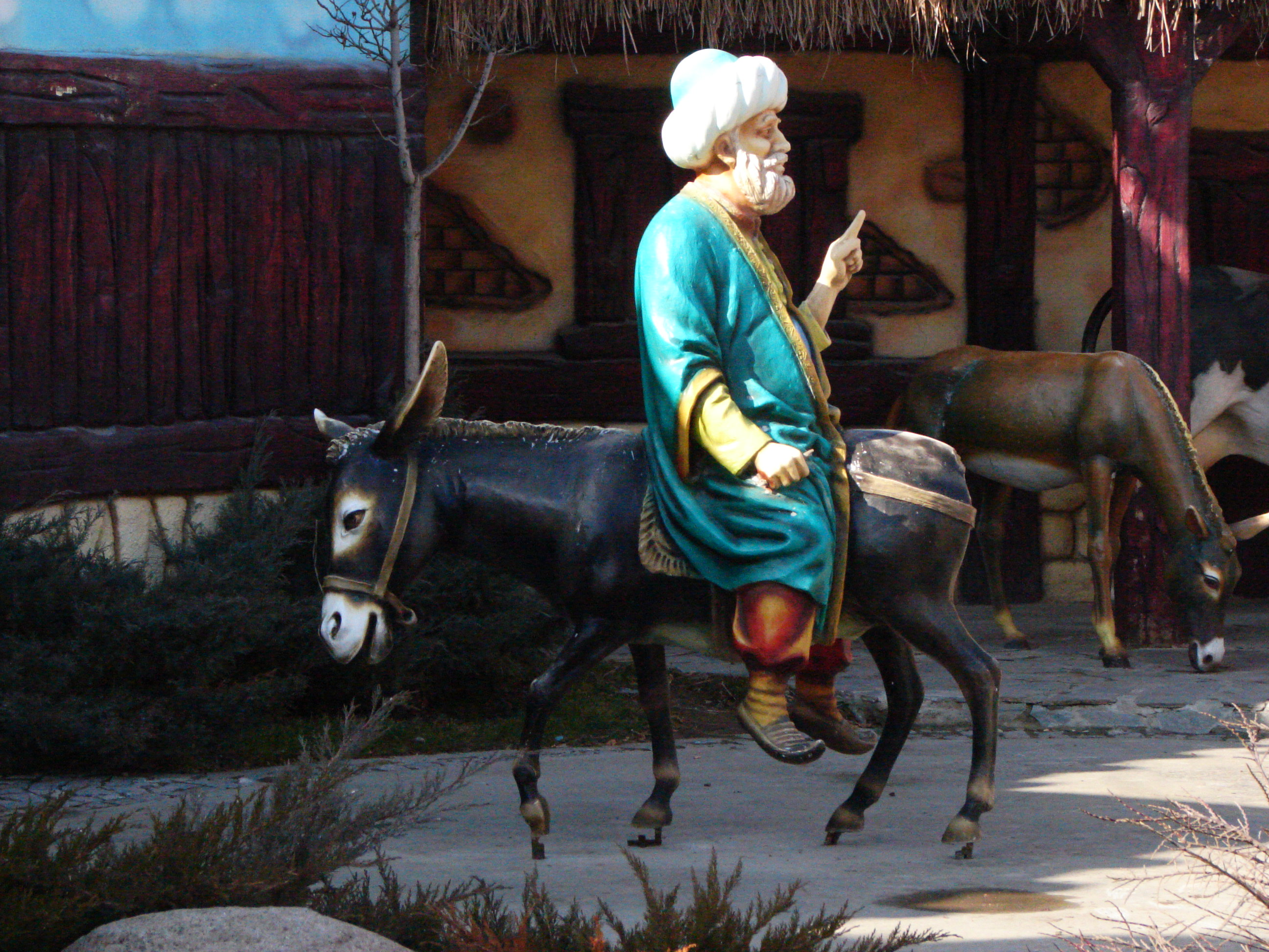 Ankara Amusement Park, Nasreddin Hodja and Donkey